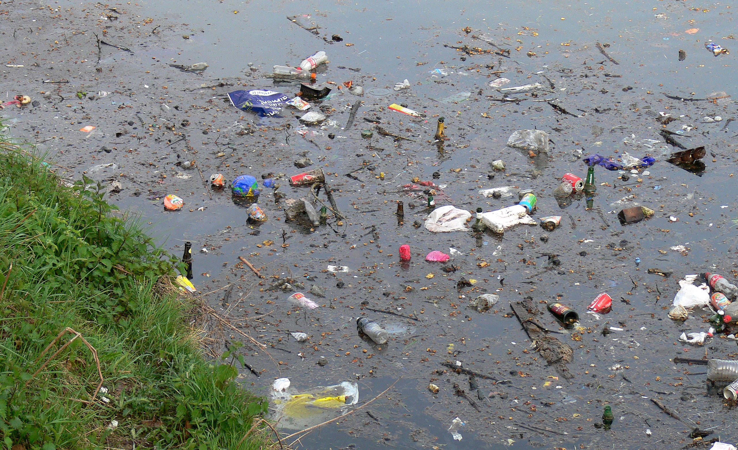 Presence of waste in the Deûle in Lille (North of France), during a fair.